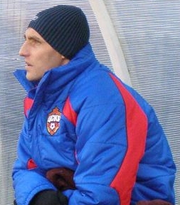 Elvir Rahimić in action for PFC CSKA Moscow